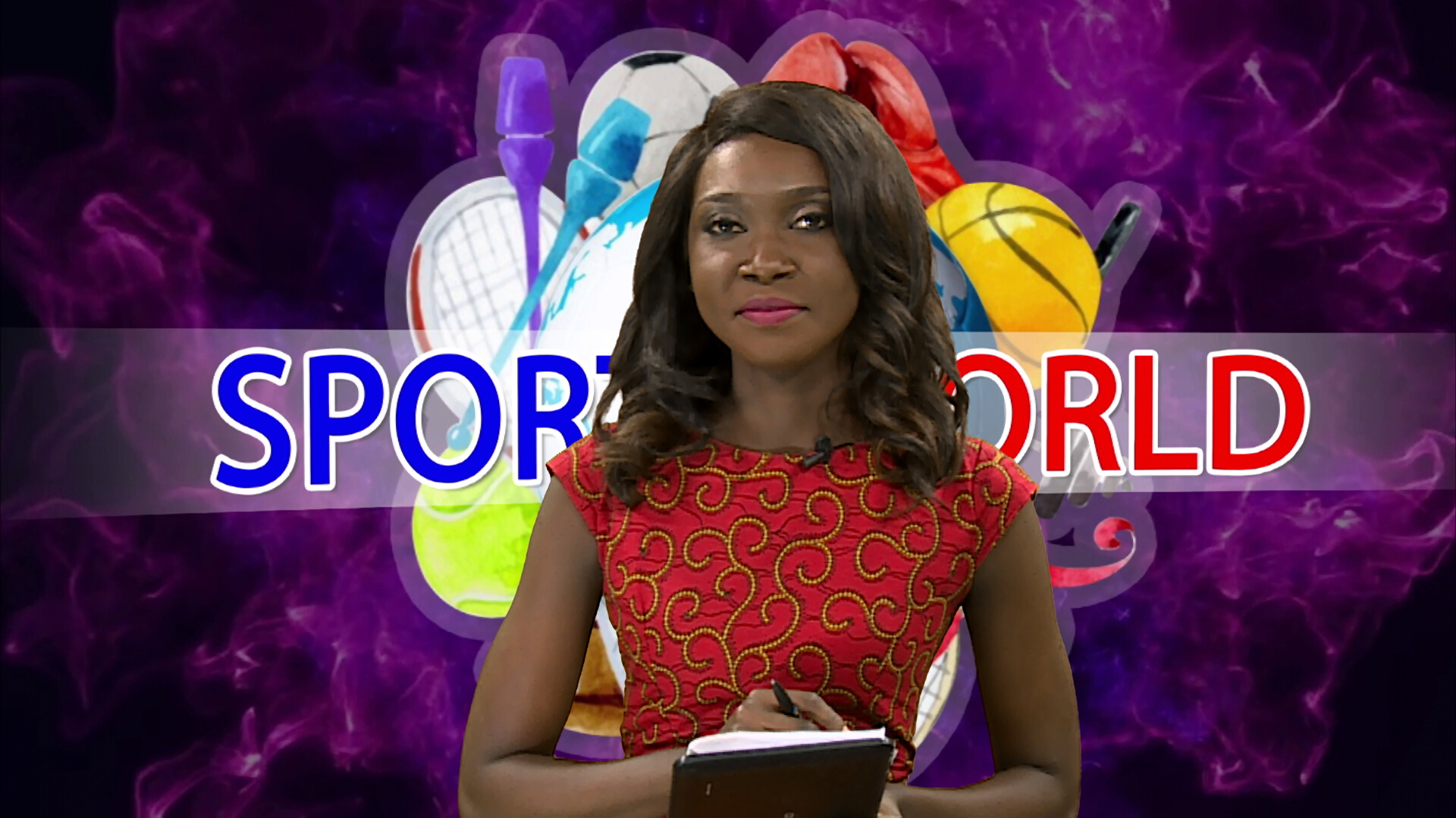 Akosua Addai Amoo is a sports anchor,reporter and producer at Metro Tv .Akosua Addai Amoo presents the Sports News on the lunch time edition of the News @ 2. She is also the host of Sports World